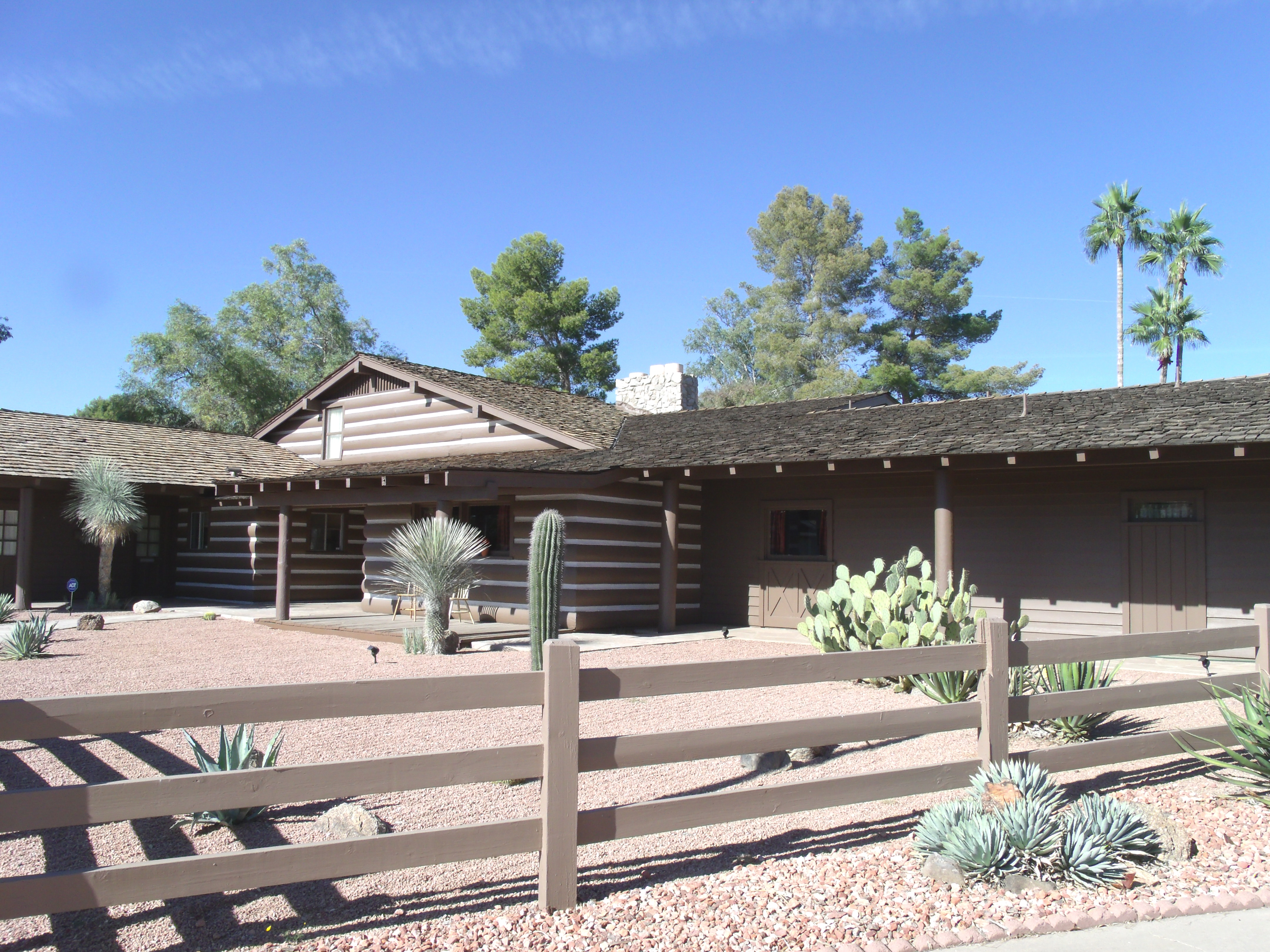 Different view of the Ponderosa II House (Lorne Greene's house) which was built in 1960 and is located at 602 S. Edgewater Drive.